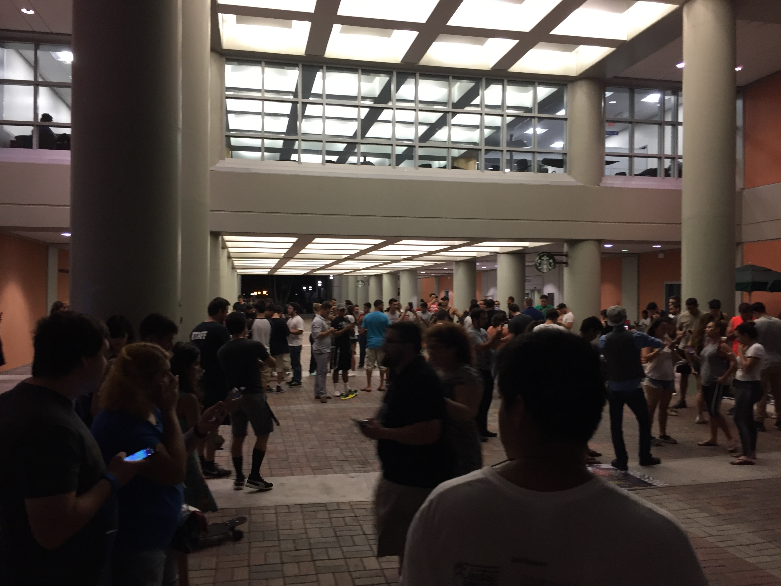 Dozens of people gathered at Florida International University during the night to catch a Haunter in Pokémon GO.